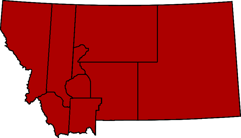 Montana county map 1865, Montana's original nine counties